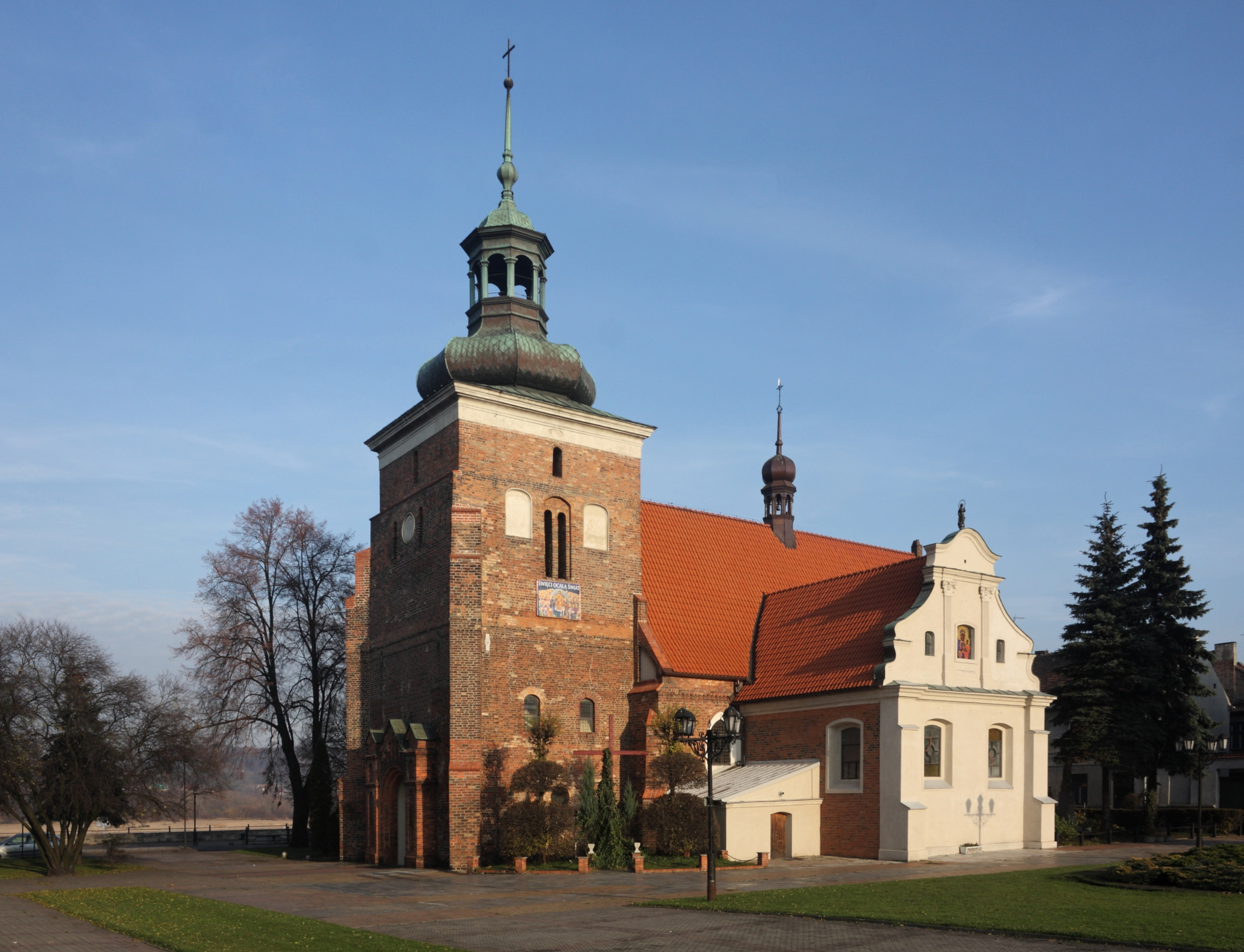 Włocławek, Late-Gothic parochial church of St. John the Baptist.